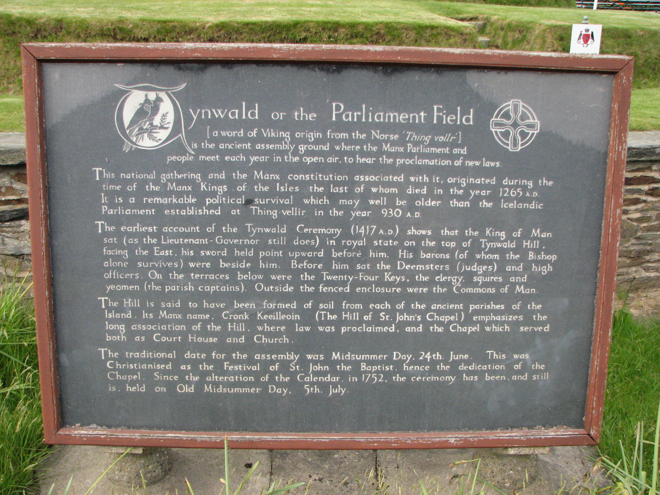 Sign explaining the historical background of Tynwald at St Johns, Isle of Man